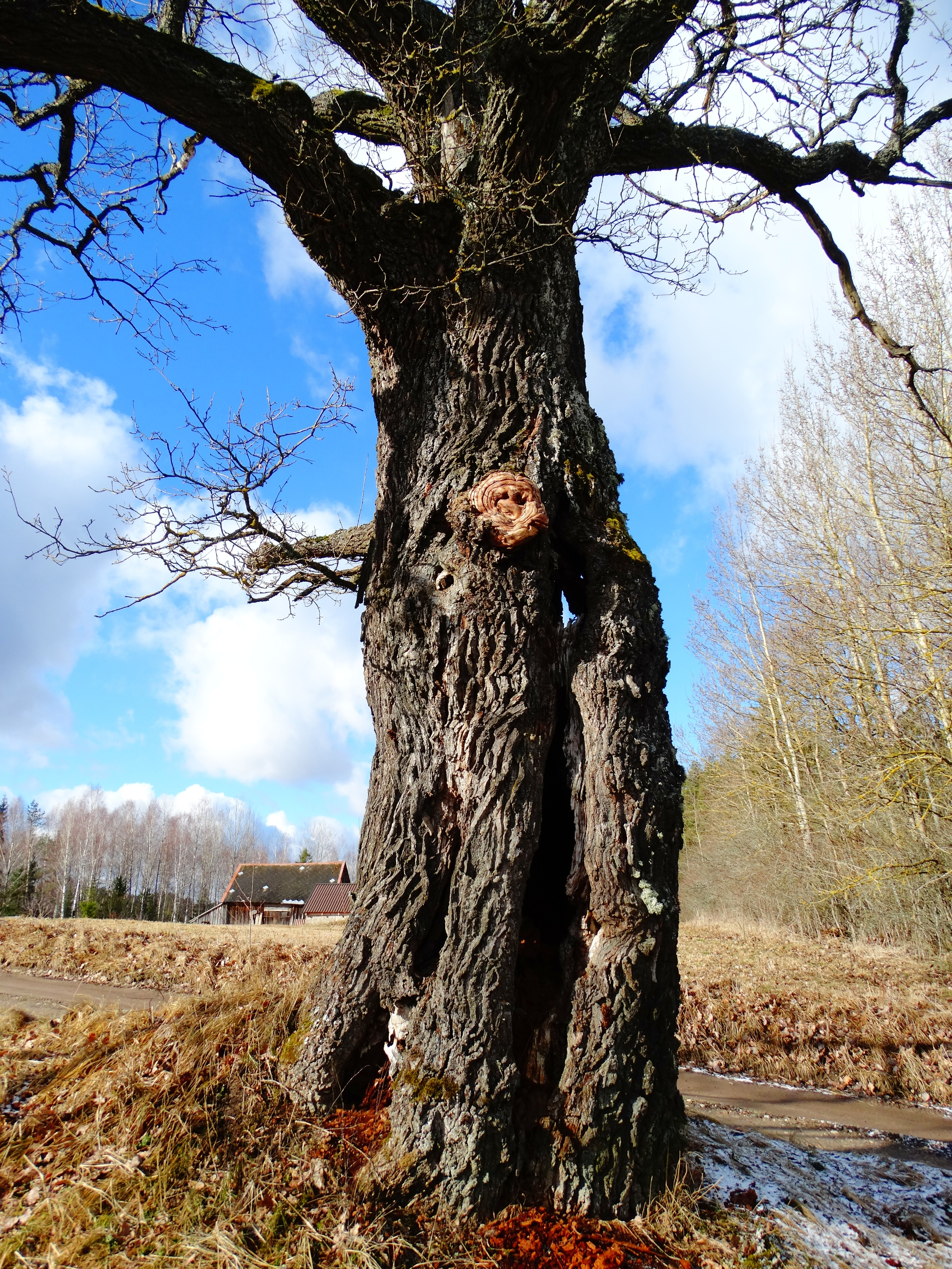 Oak in Ditkūnai, Zarasai district, Lithuania